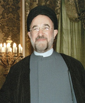 Mohammad Khatami, Iranian former President (1997-2005)